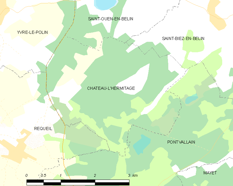 Map of French municipality